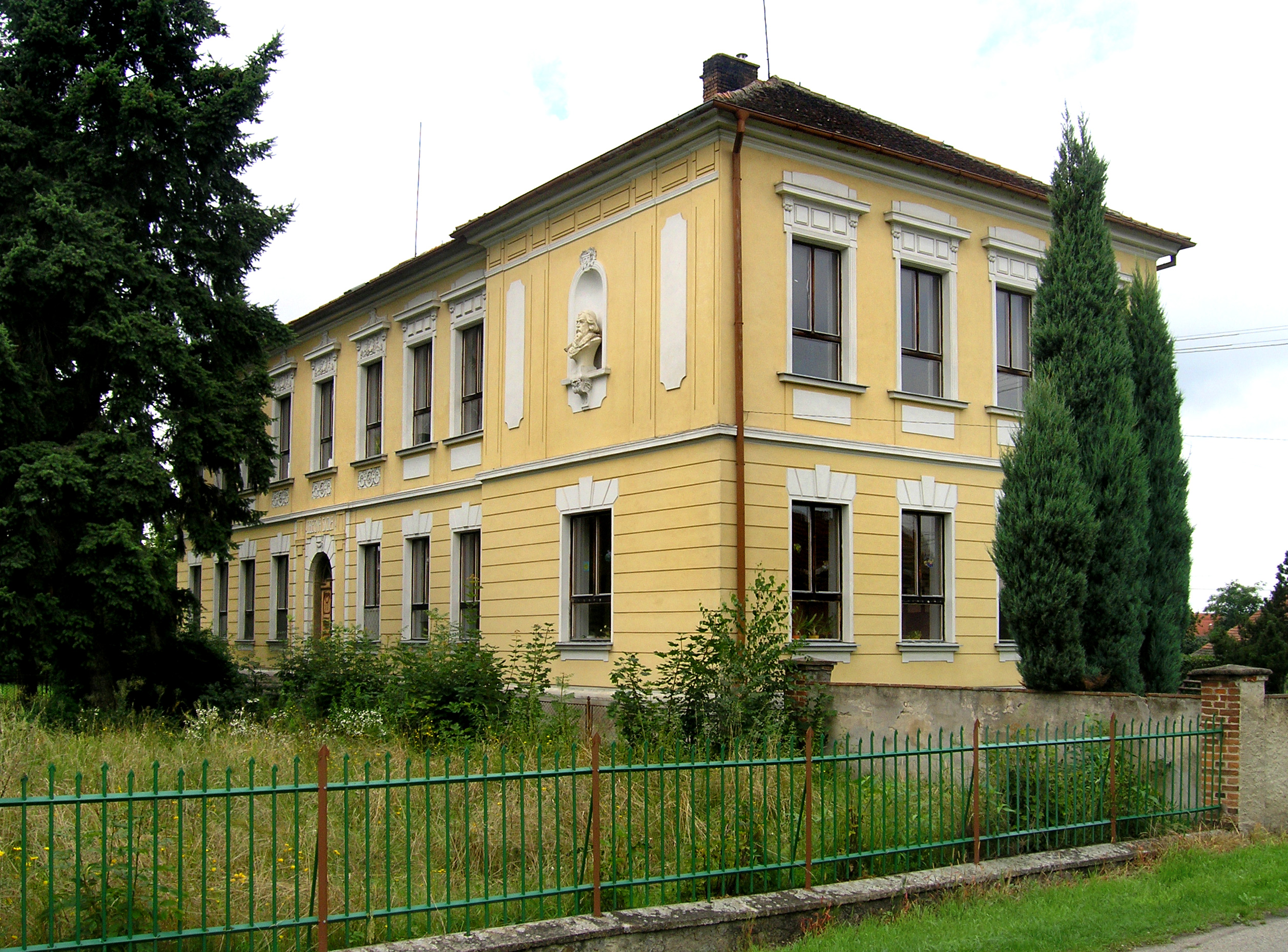 Old school in Kobylnice, Czech Republic